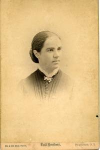 Photograph of Antonia Maury from her senior year at Vassar College